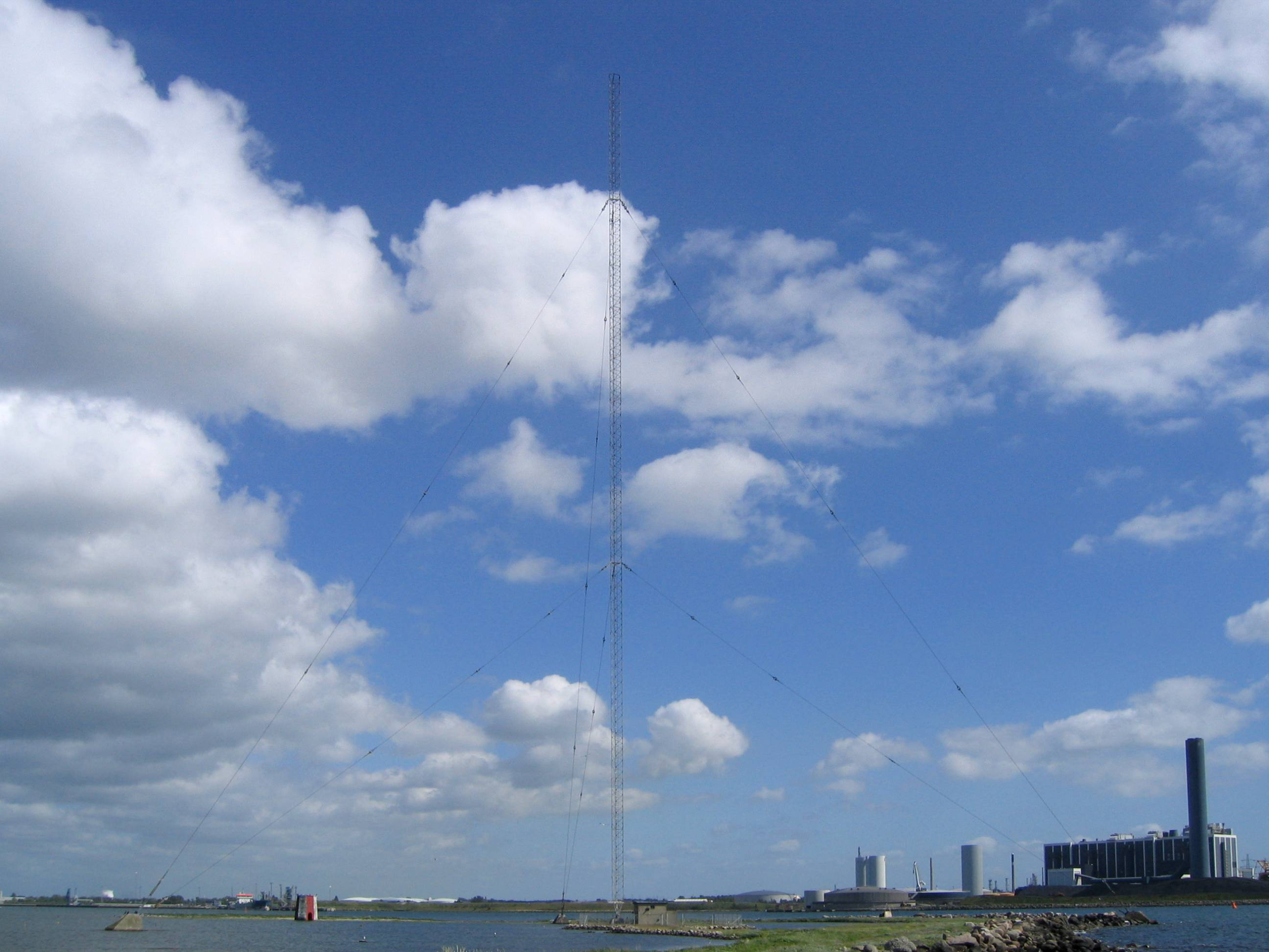 Kalundborg AM radio transmitter (Denmark). Mediumwave antenna. The dark building in the background is a powerplant: Asnæsværket.